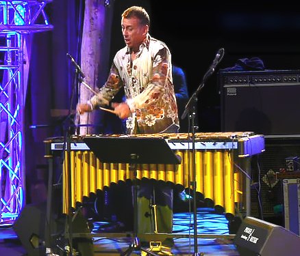 vibraphonist / composer Joe Locke, JazzBaltica July 01, 2007